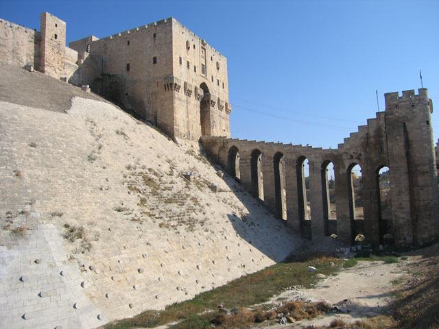 Aleppo Citadel.